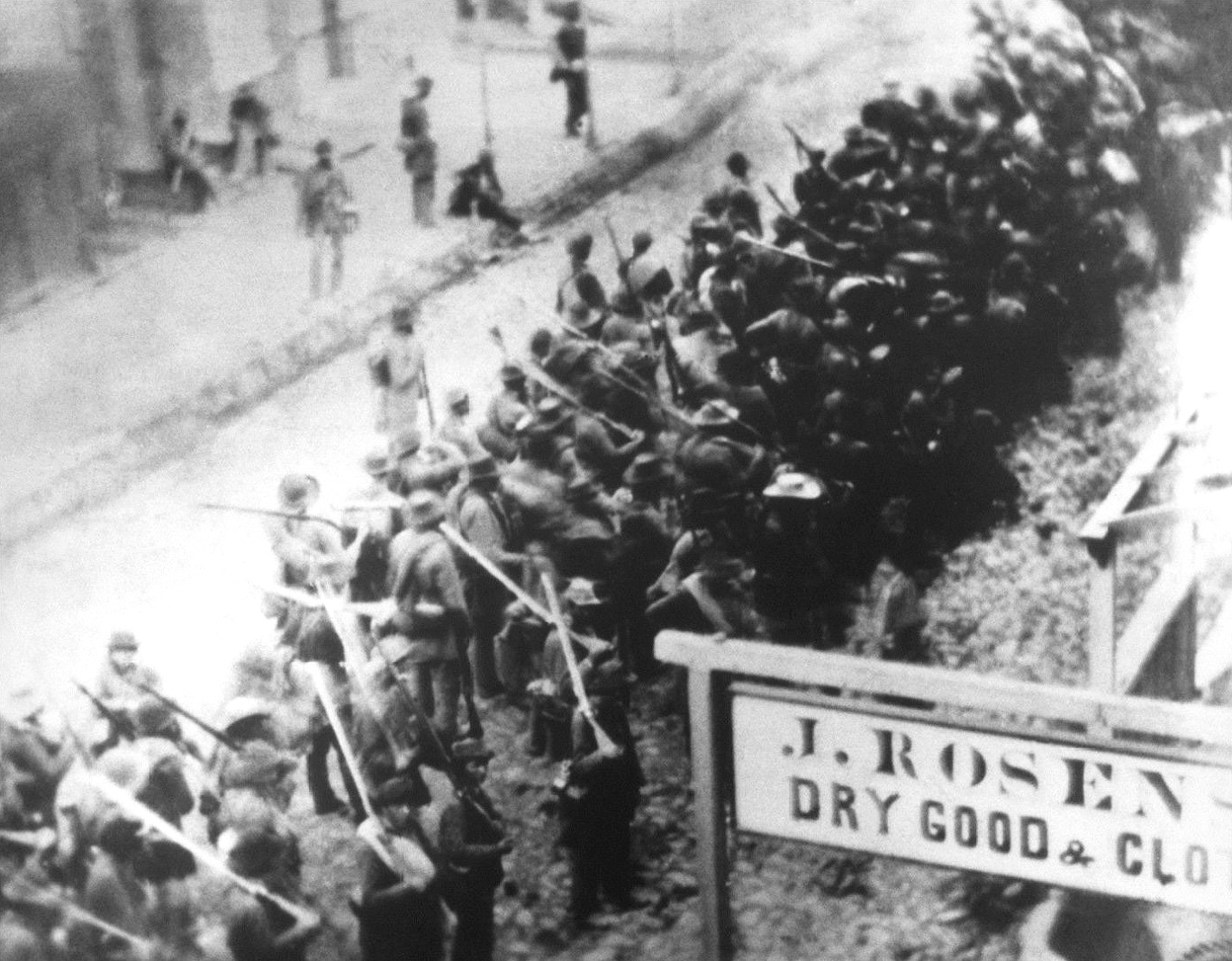 Confederate troops marching south on N Market Street, Frederick, Maryland, during the Civil War. Photograph available from the Historical Society of Frederick County, Maryland; Catalog No. P0241.N Note: Original theory states that photo is from Sept. 10, 1862, and shows Jackson's Confederate troops marching west on Patrick Street approaching the town square at Market Street; the soldiers are on their way to the Battle of Antietam. A revisionist theory claims that this is John Echol’s division waiting in a temporary traffic jam, to march south down S. Market street on the morning of July 9, 1864 when Jubal Early headed south.